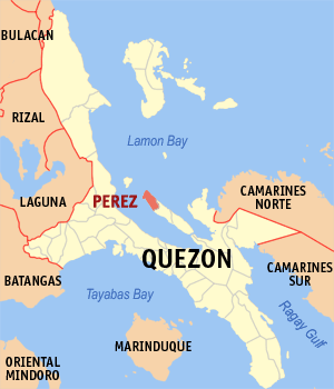 Map of Quezon showing the location of Perez